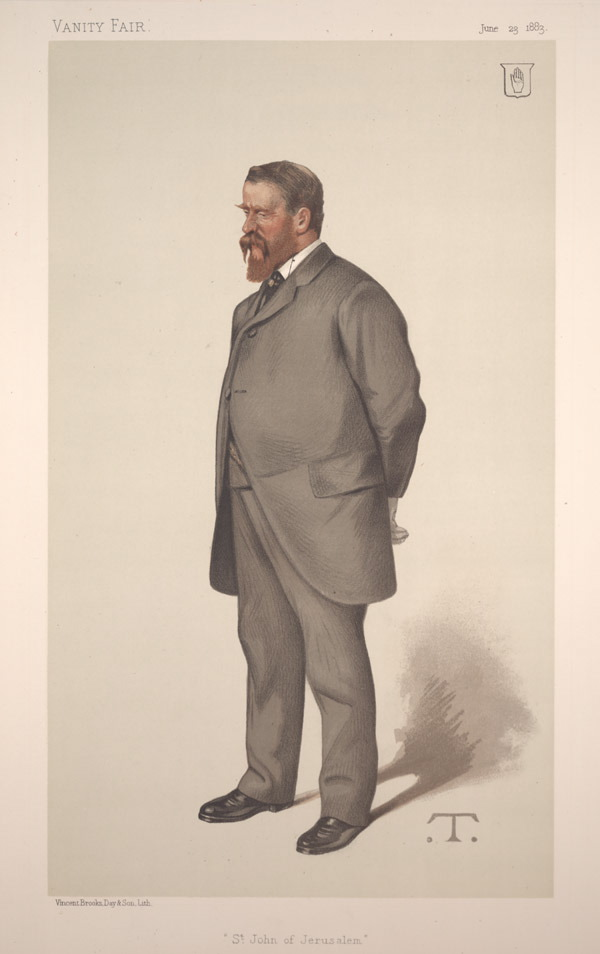 Statesmen No.425: Caricature of Sir EAH Lechmere Bt MP. Caption reads: "St John of Jerusalem"